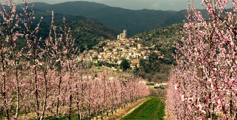 Eus village in spring (France).